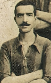 Hassan Sami Kocamemi, cropped out of the original file.